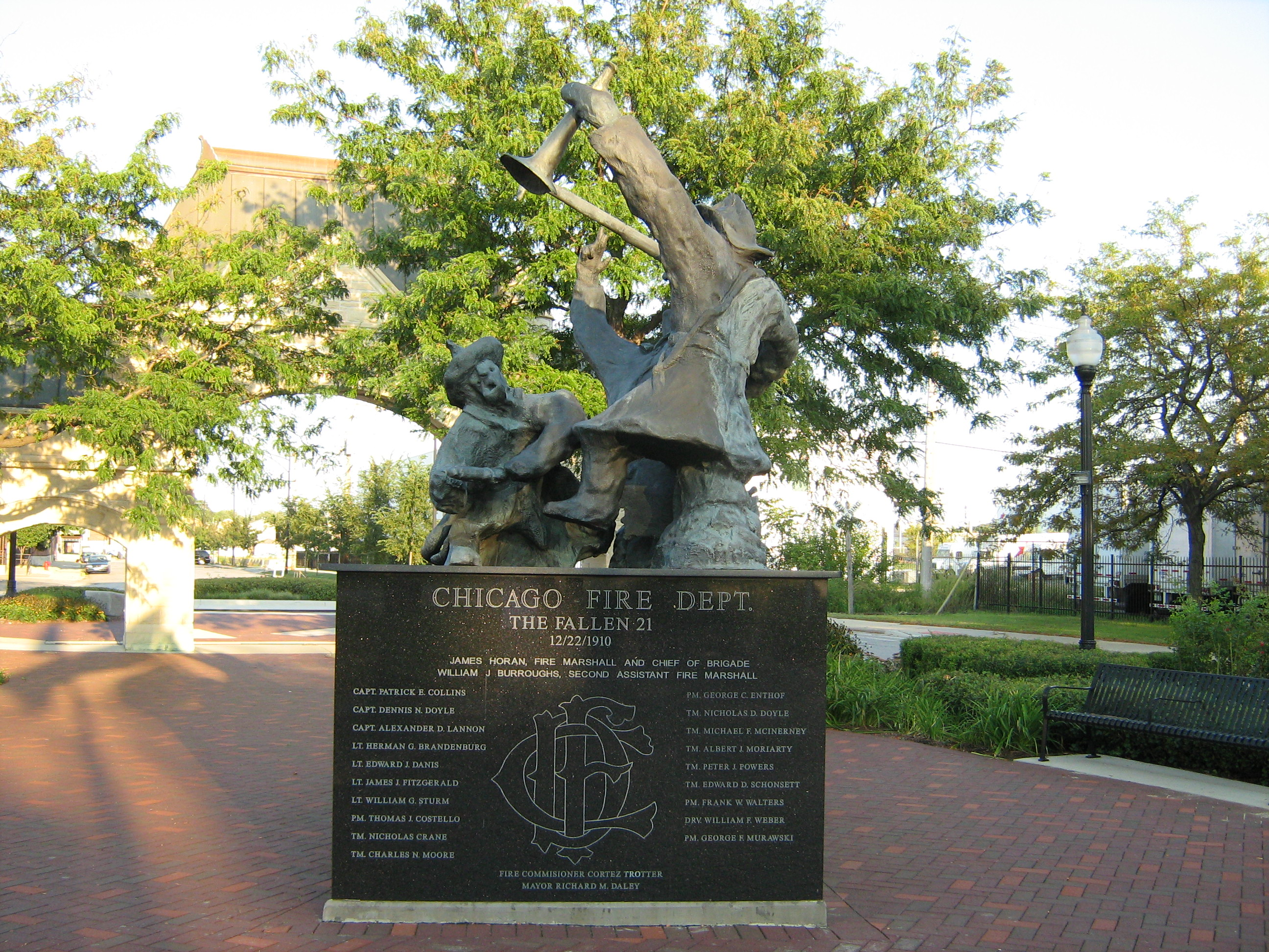 Chicago Fire Department The Fallen 21 Memorial